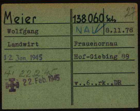 Registration card of Wolfgang Meier as a prisoner at Dachau Nazi Concentration Camp. The stamped cross signals the day of his death.